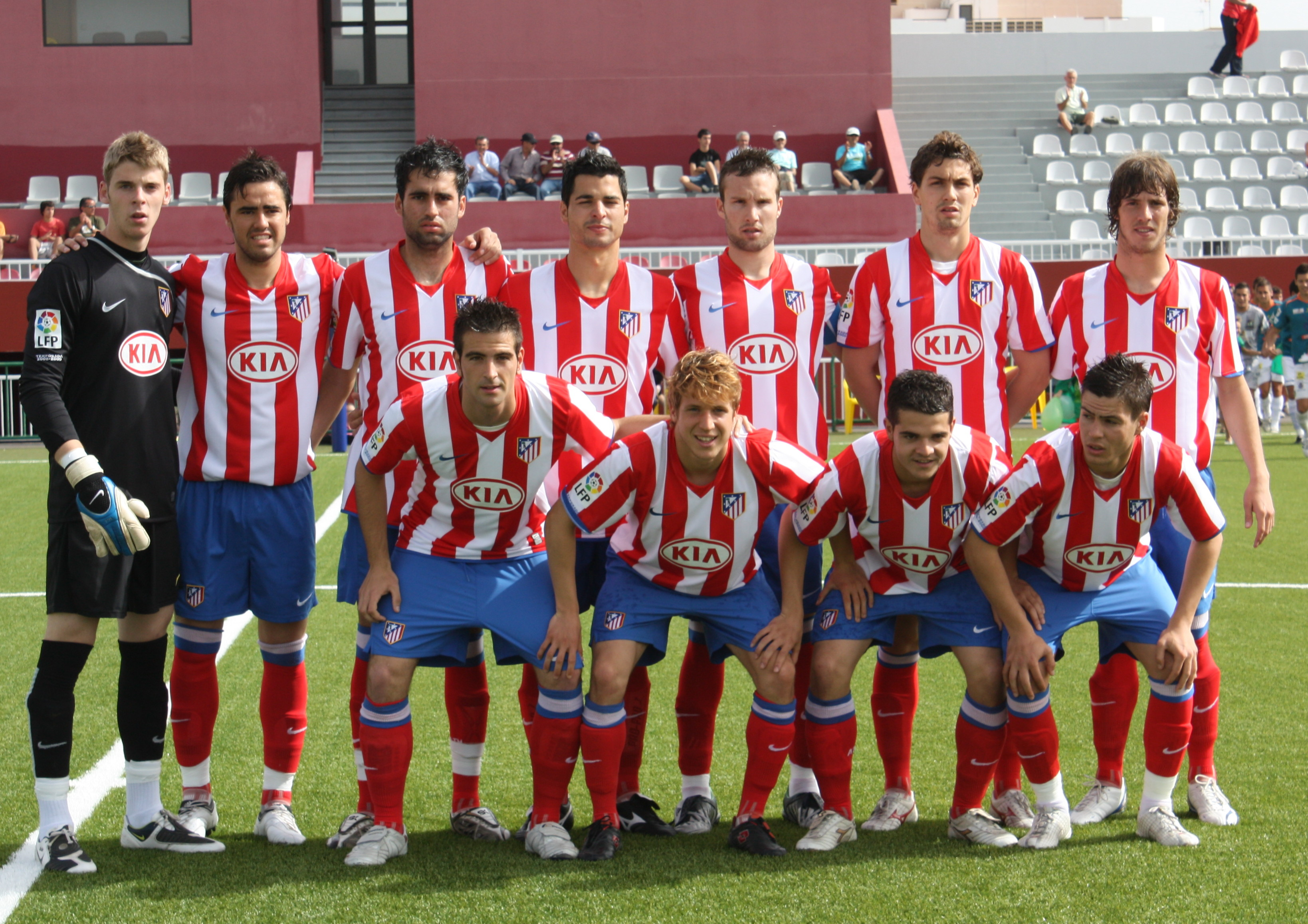 Atletico Madrid B who play in Segunda Division B of the Spanish League